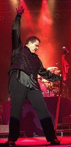 My own picture of Meat Loaf Live in New York, 2004